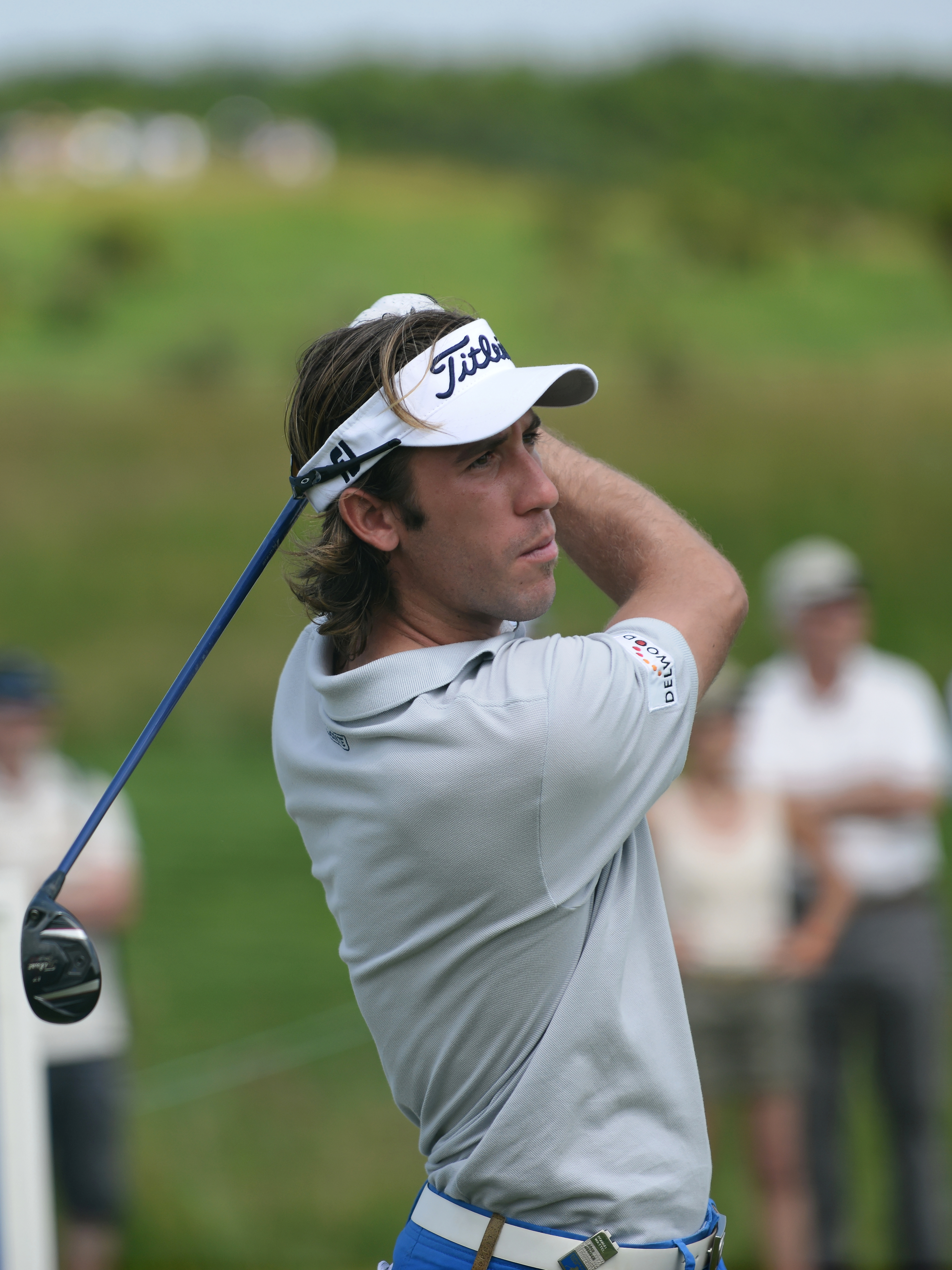 France's Romain Wattel tees off the 10th hole during round 3 of the French Golf Open at the Golf National in Saint Quentin en Yvelines, Saturday July 6th 2013.